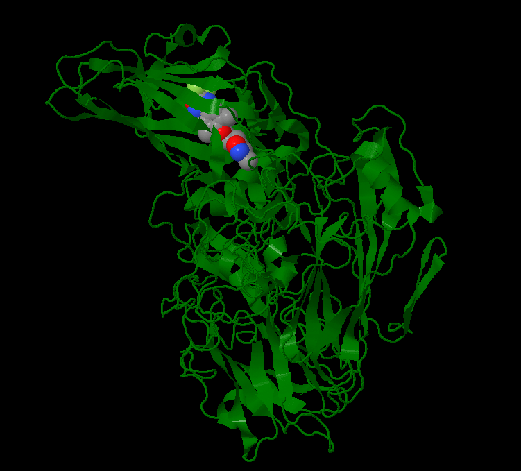 This Image was created in JMOL. The green beta sheets and alpha helices of the human rhinovirus. The bold section is the Pleconaril bound to the hydrophobic pocket of the VP1 protein coat.